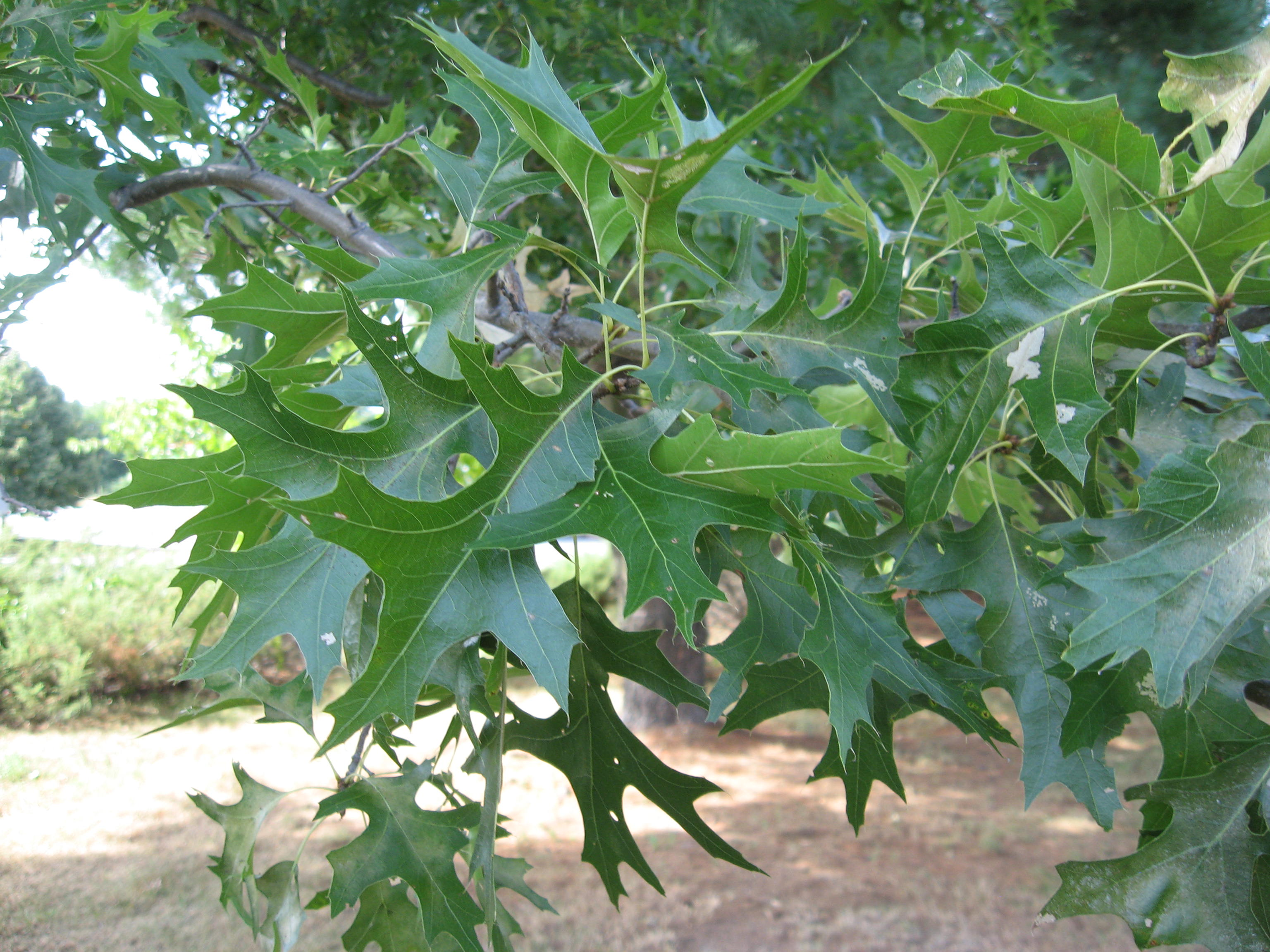 Pin Oak Quercus palustris. Smithfield, Rhode Island, USA.